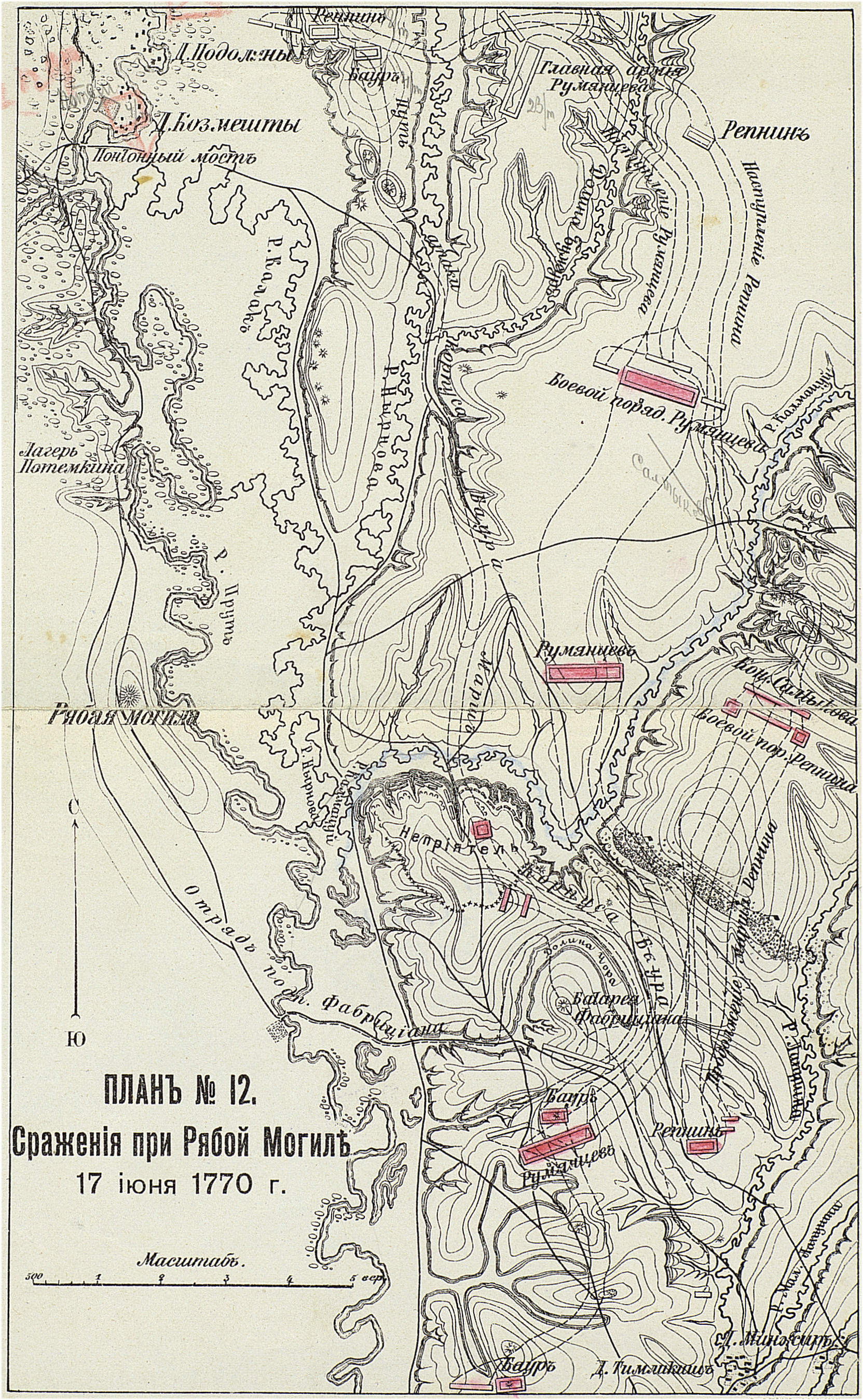 A map of the Battle at Ryabaya Mogila (1770) between the Russian and Turkish armies